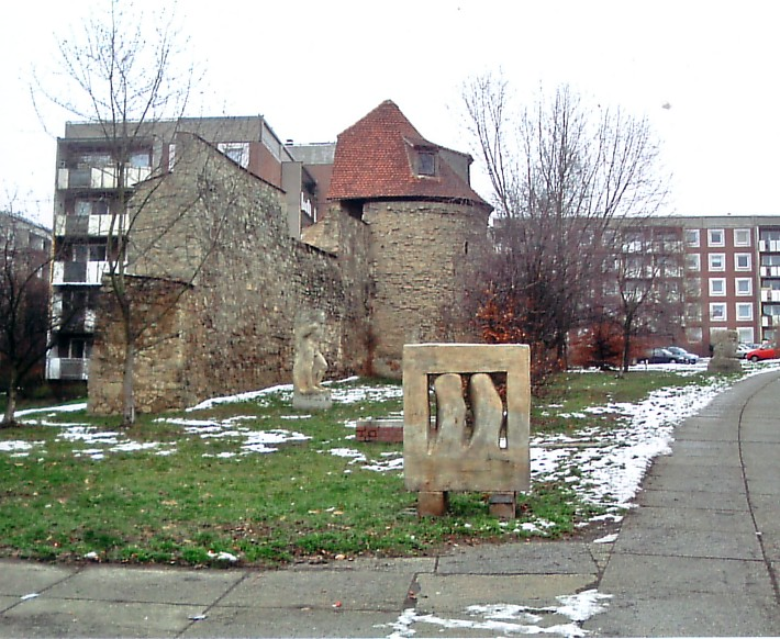 tower of the city wall in Gera, Germany